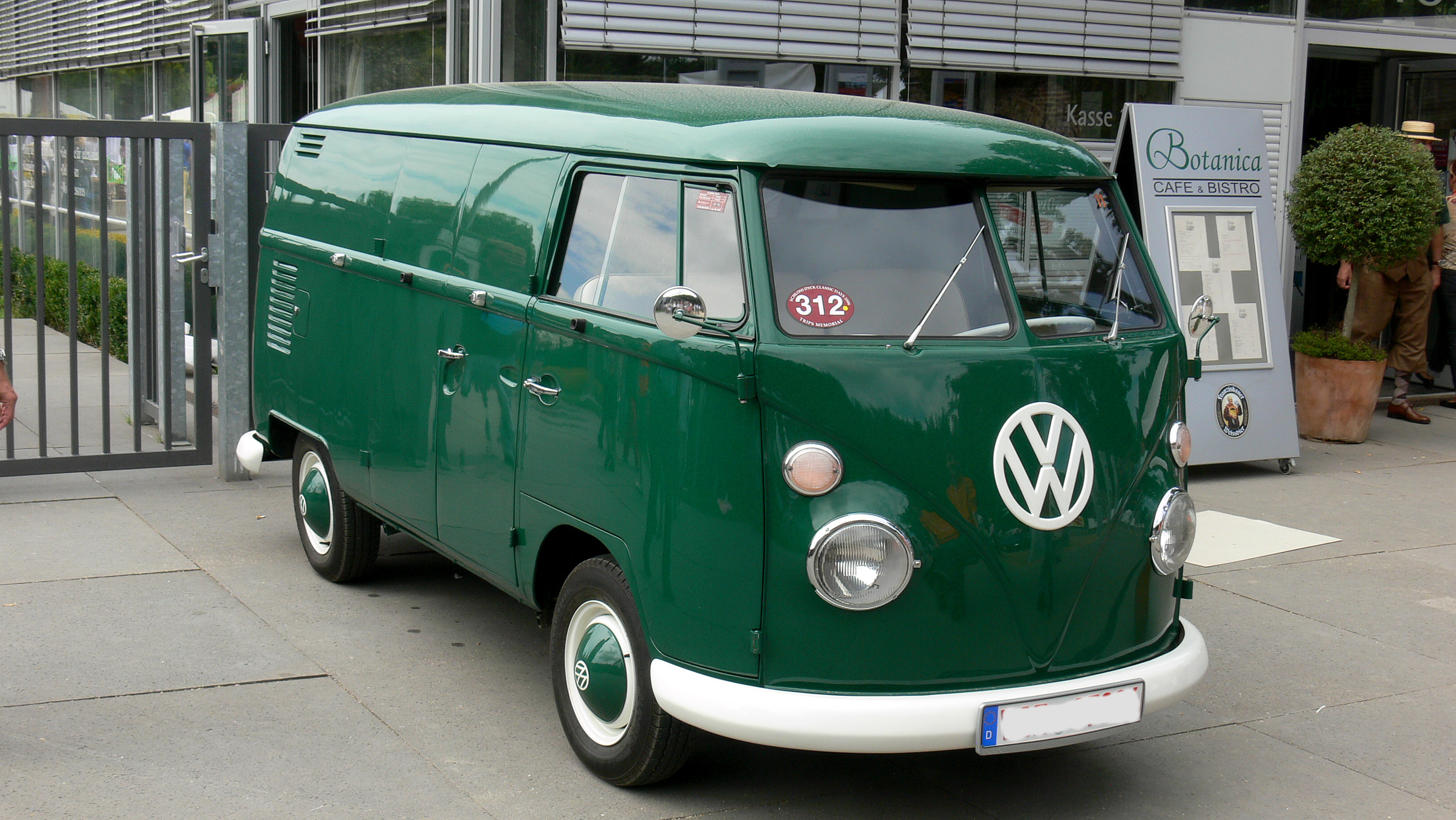 Volkswagen T1 Kastenwagen (1964) at Dyck Castle, Germany